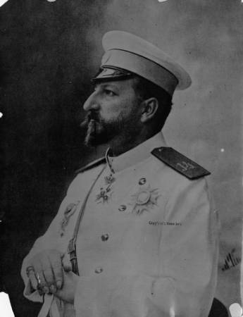 Picture shows a portrait of King Ferdinand of Bulgaria. On recto: "Copy'd Int. News Sv's". ; On verso: "War in the Balkins". ; On verso: "King Ferdinand, of Bulgaria, whose country had already mobilized thousands of troops along the Turkish border."